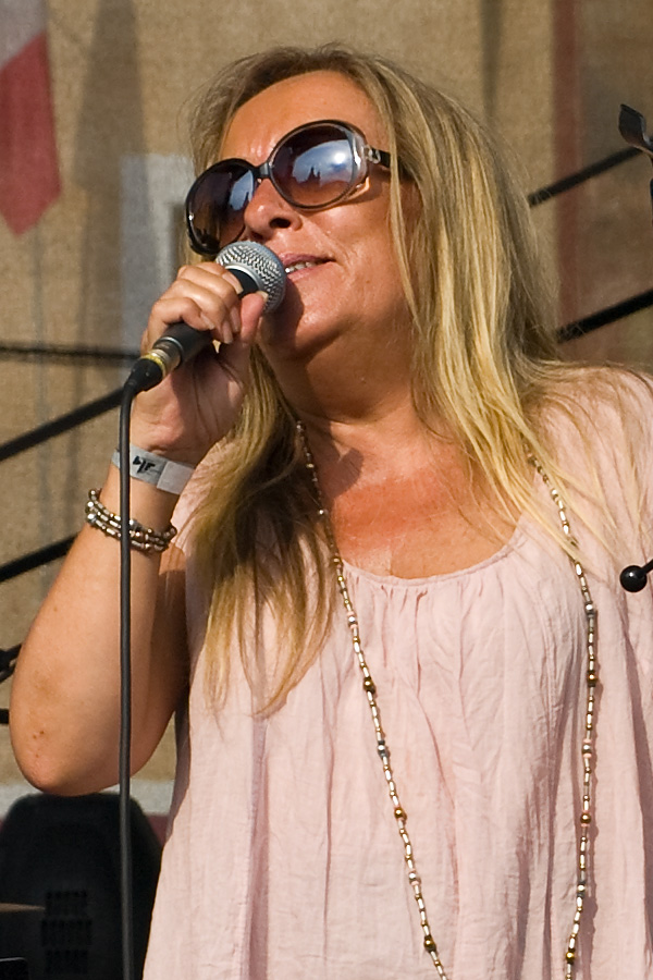 Inger Marie Gundersen Group at the Bohemia Jazz Fest in Prague